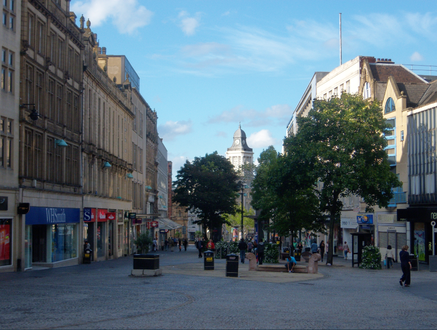 Fargate shopping precinct, Sheffield, UK.